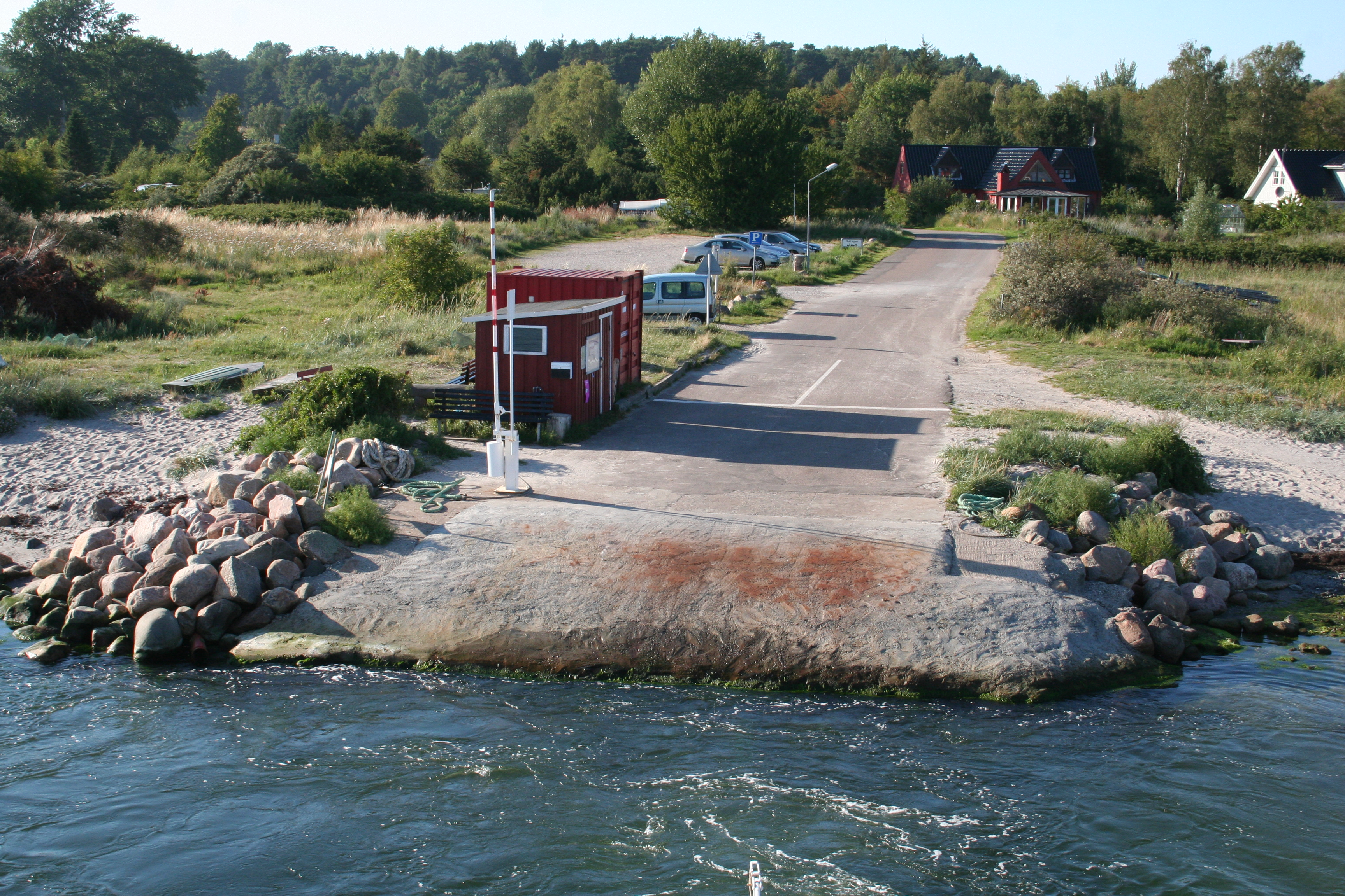 Port of Sølager near Hundested, Denmark. Photo taken from the small ferry M/F Columbus (1947) on its 10-minute route from Kulhuse